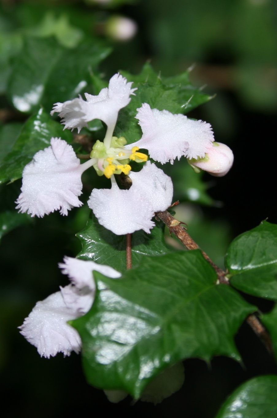 Malpighia coccigera: Flower.